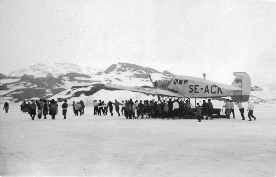 Ahrenbergs Greenland expedition, 1931.